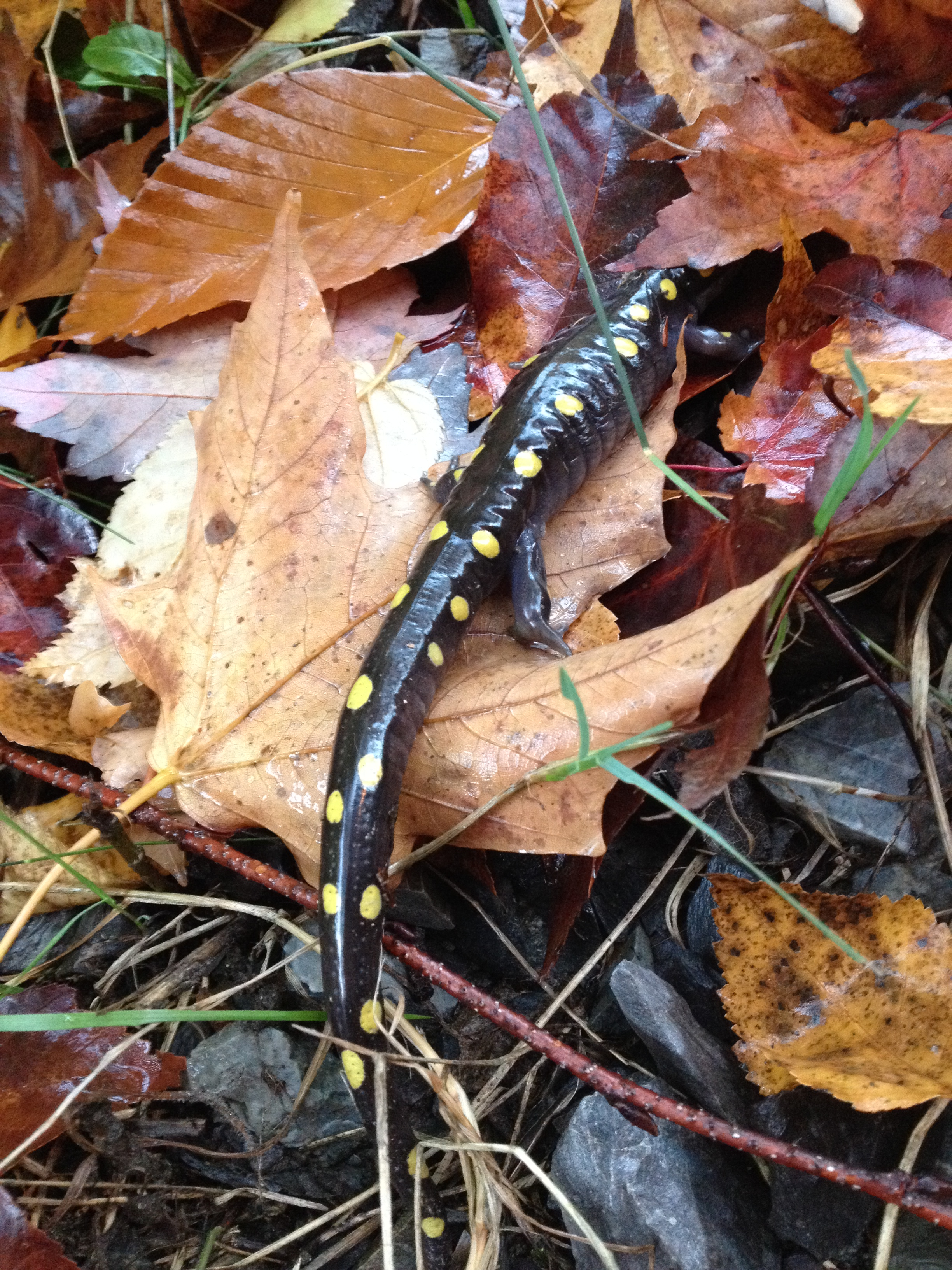 Salamandre tachetée au mont Gale à Bromont, QC